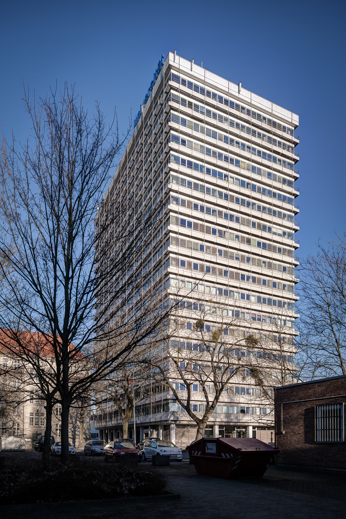 High-rise at Appelstraße, Hanover, Germany. The building is used by the University of Hanover and was completed in 1972.